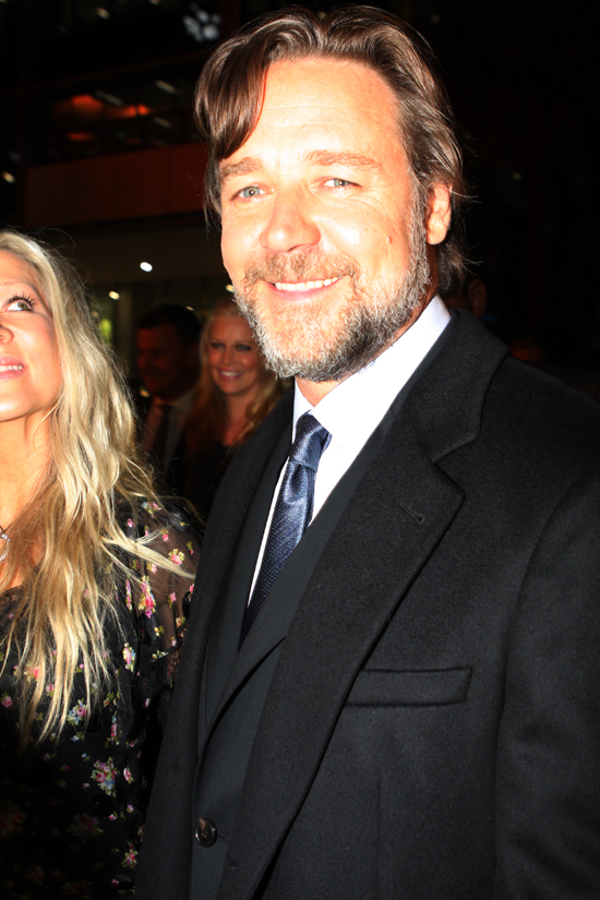 Russell Crowe